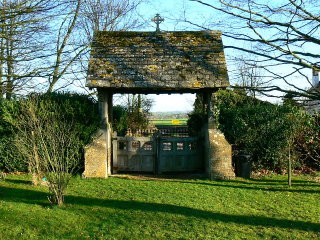 Cemetery lychgate, Kingston Lisle, Oxfordshire (formerly Berkshire)